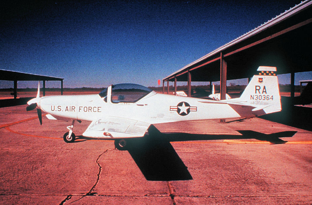 Slingsby T-3A Firefly 92-0637 N30364 Stored at Hondo until March 2003, then scrapped.